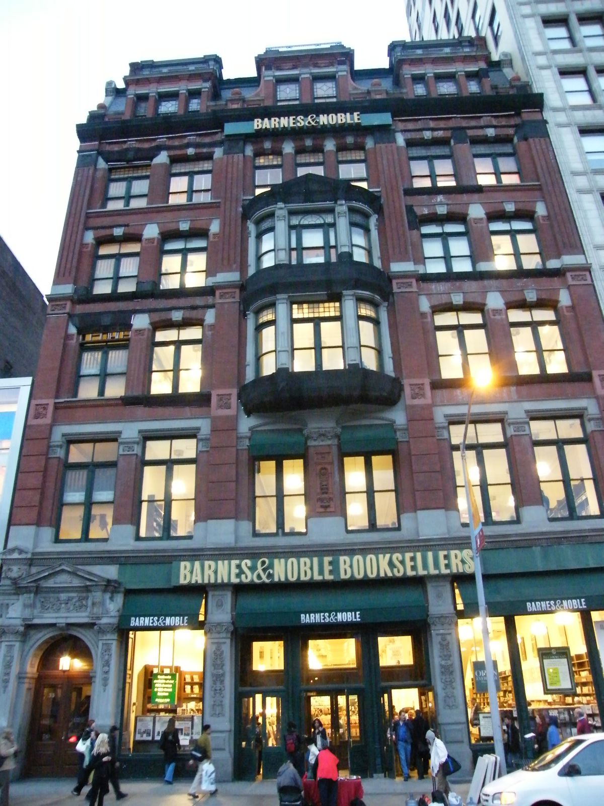 Century Building, 33 East 17th Street Barnes & Noble bookstore